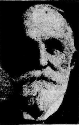 Photograph of mining pioneer William Orr